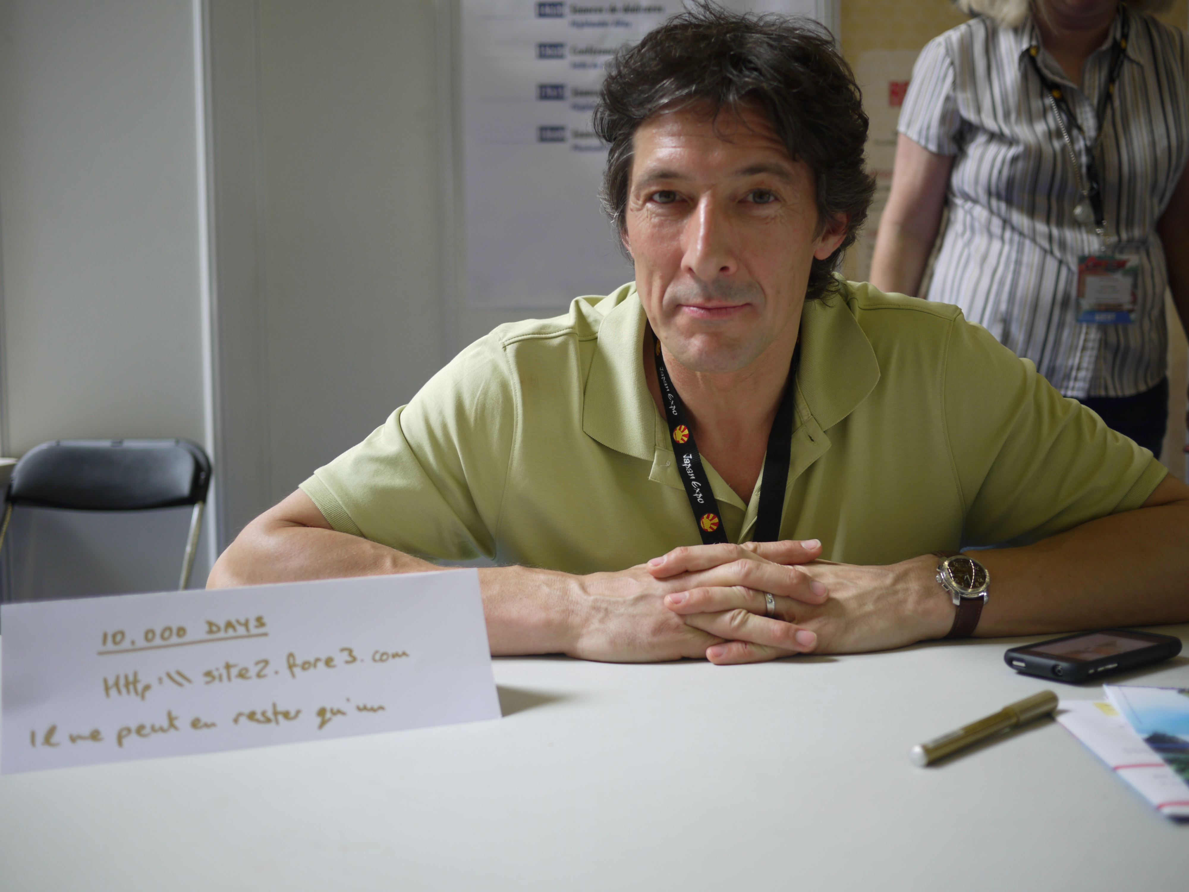 Japan Expo Festival, 11th impact